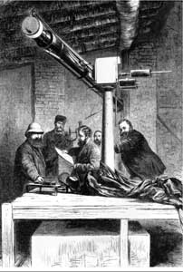 German expediotion to Persia watching the transit of Venus of 1874 in Isfahan. Observers at the photoheliograph from left to right: Franz Stolze, an unknown person, Gustav Fritsch, Hugo Buchwald and Ernst Becker